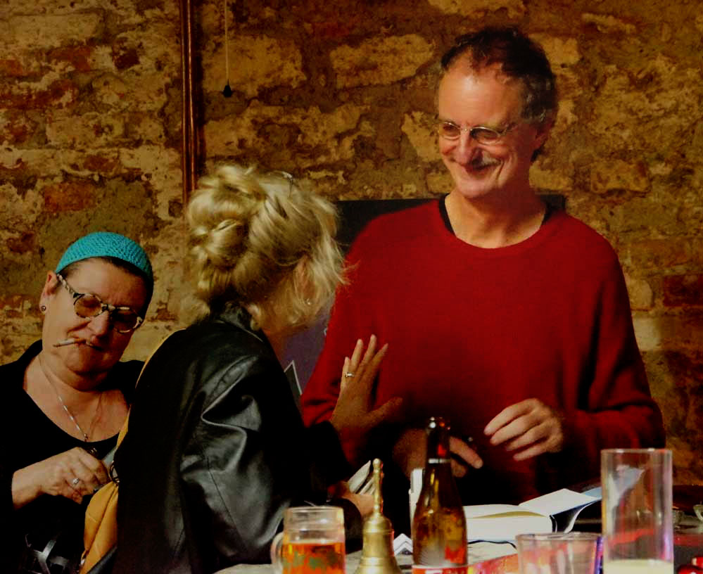 Austrian cabaretist Wolfgang Katzer (right -- the big.one ;) in talk with fans.